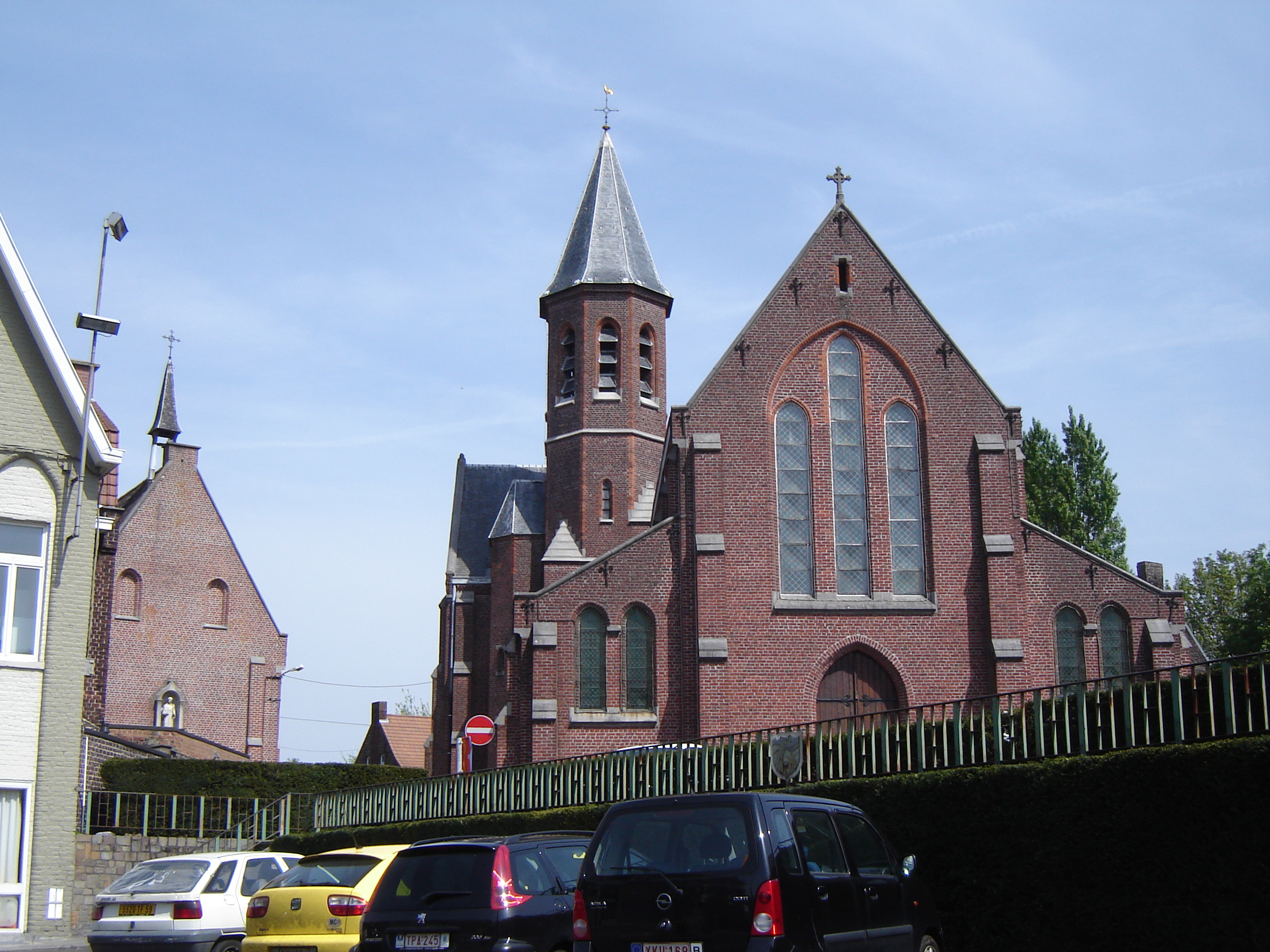 Church of Saint Anthony, in the quarter Mont-à-Leux, Mouscron. Mouscron, Hainaut, Belgium